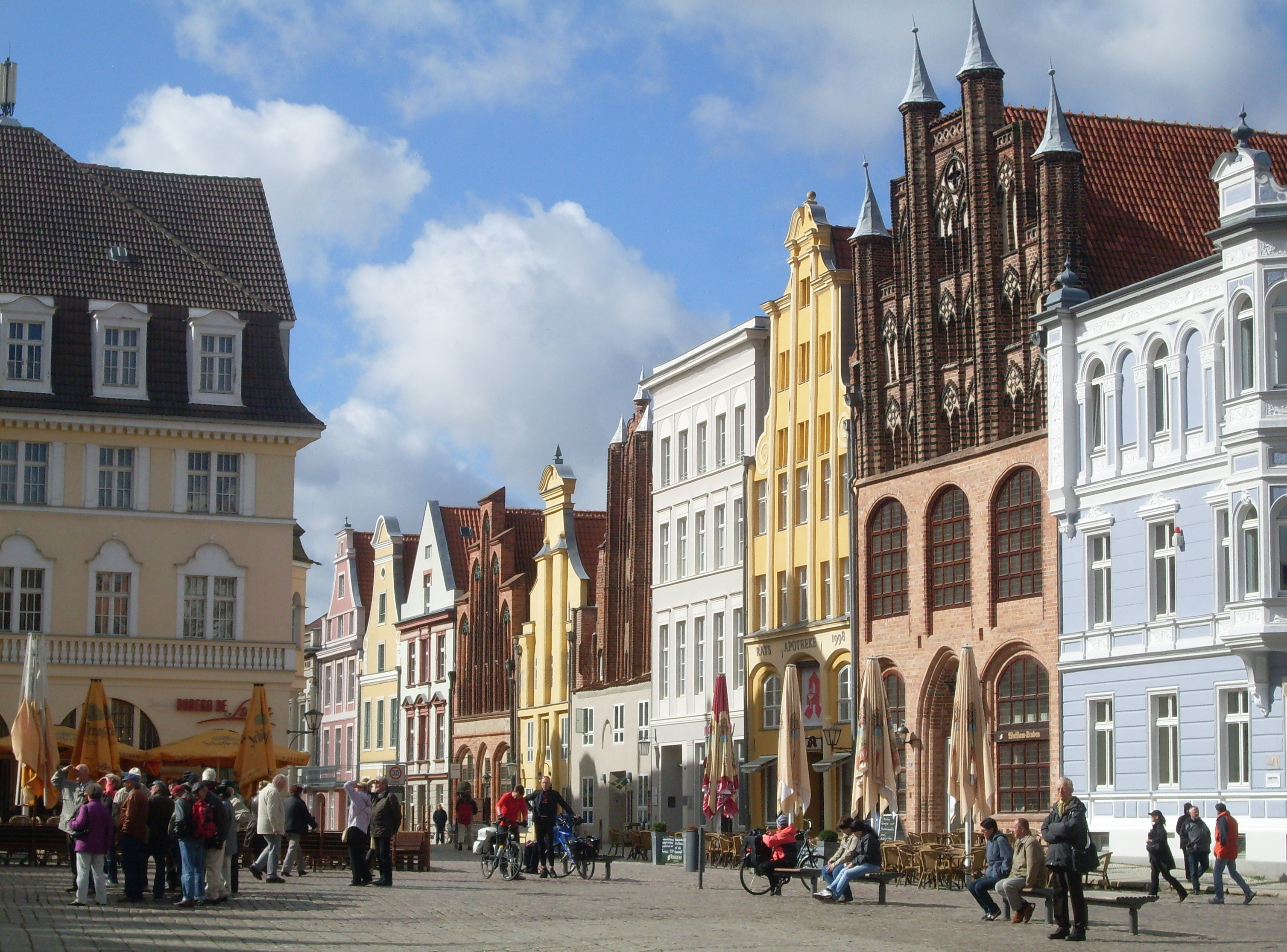 Stralsund: Old Square